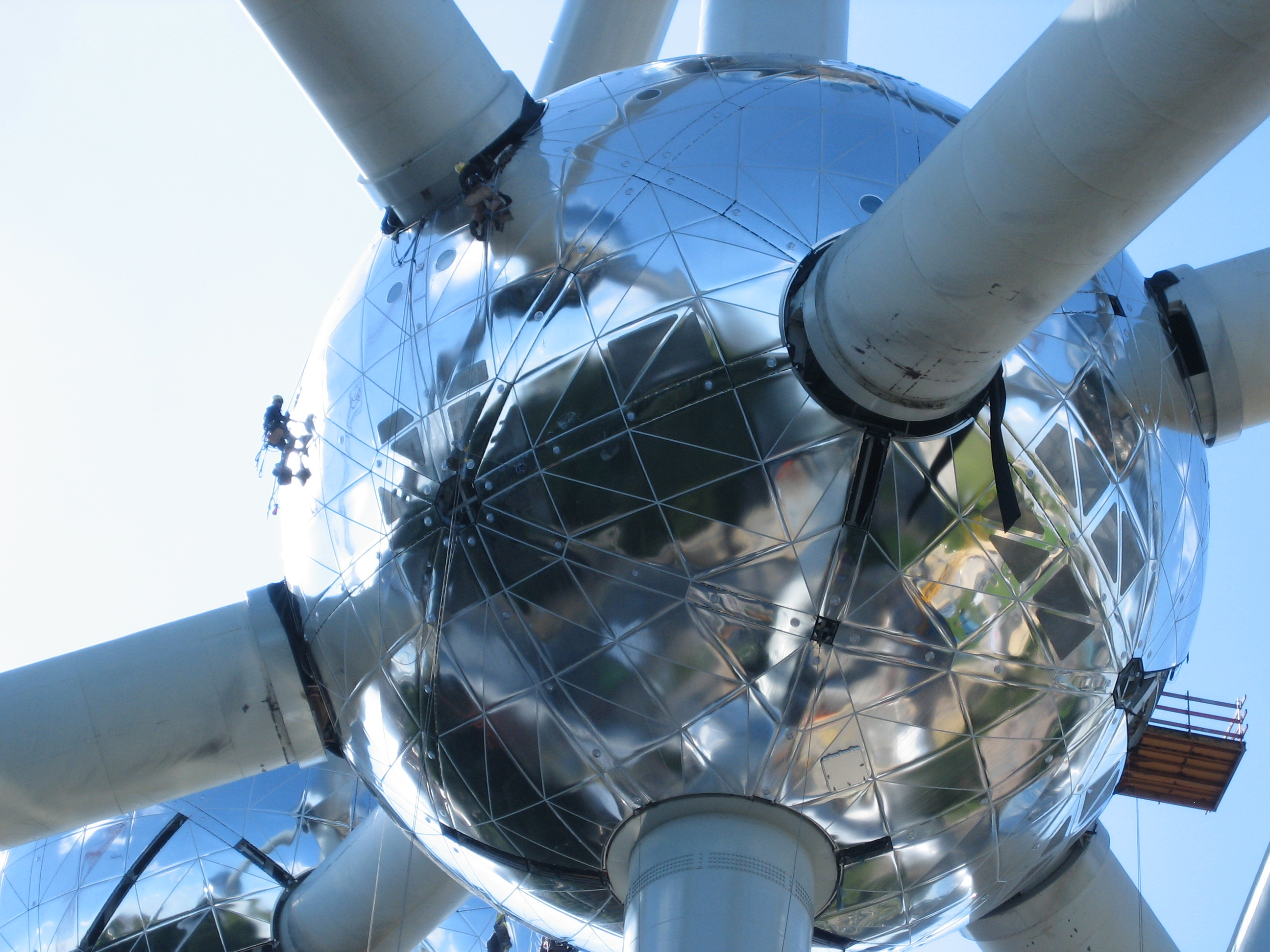 The middle ball of the Atomium, during renovation works.